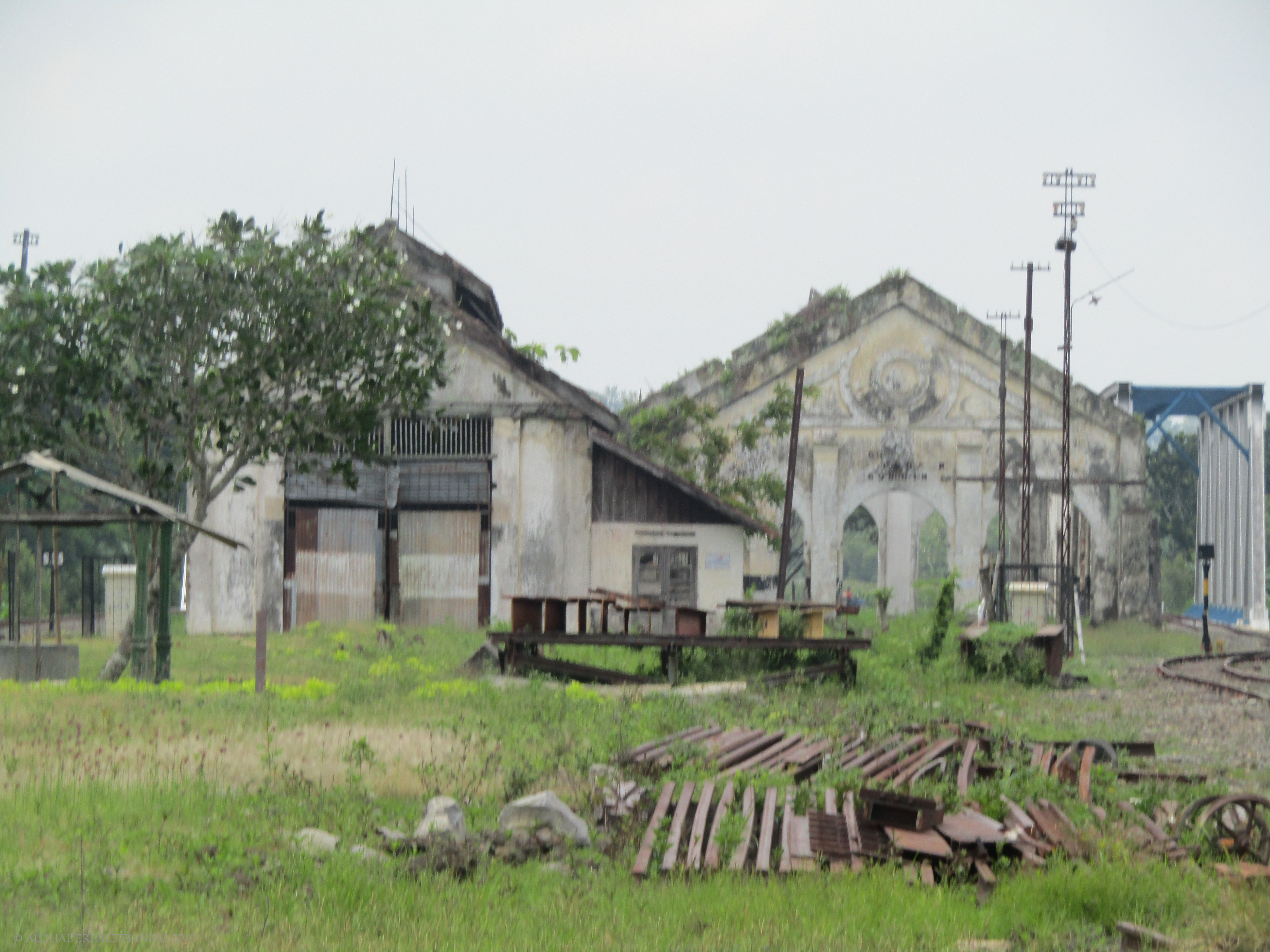 Disused Gundih locomotive shed